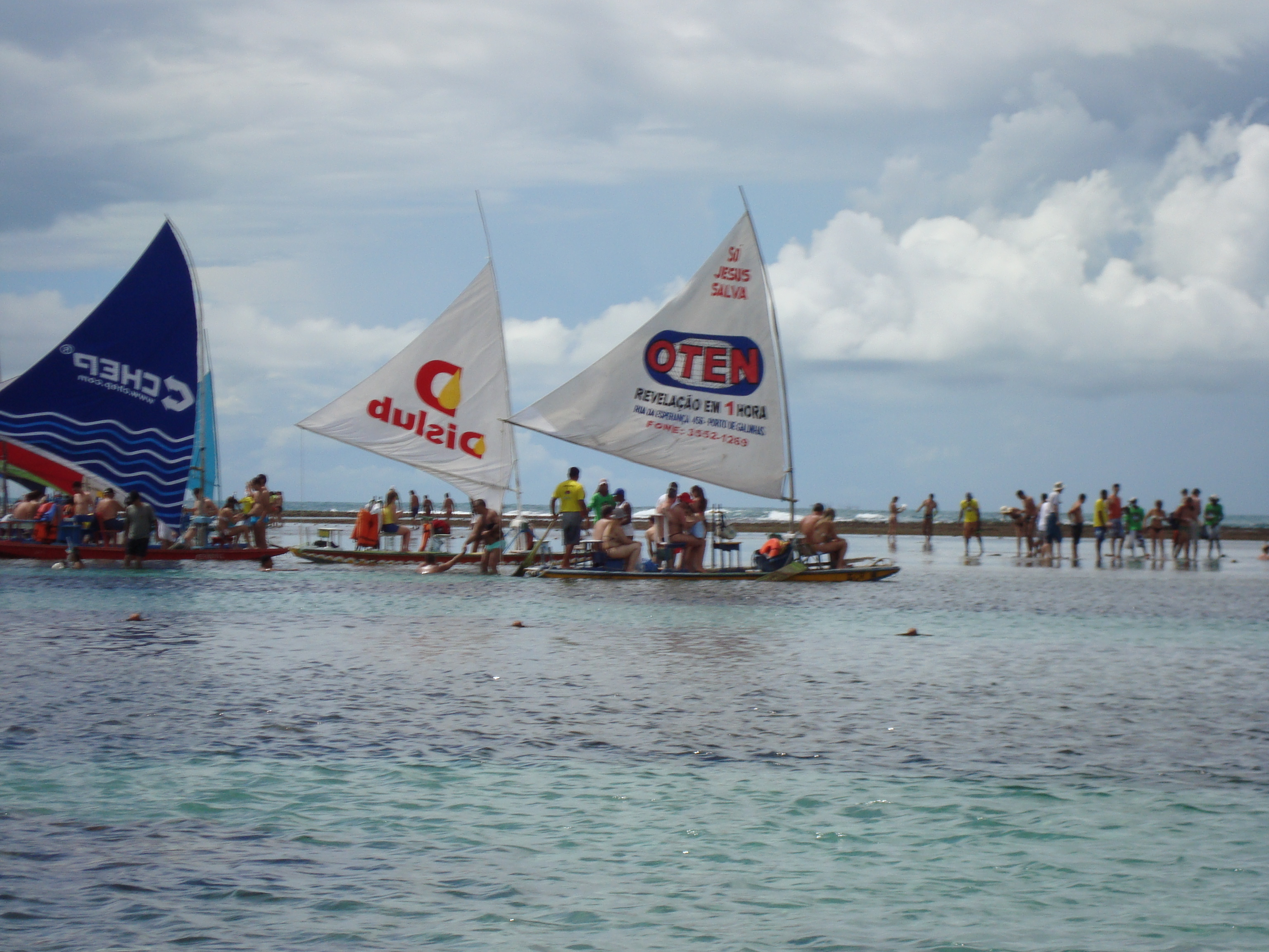 Ships in Porto de Galinhas